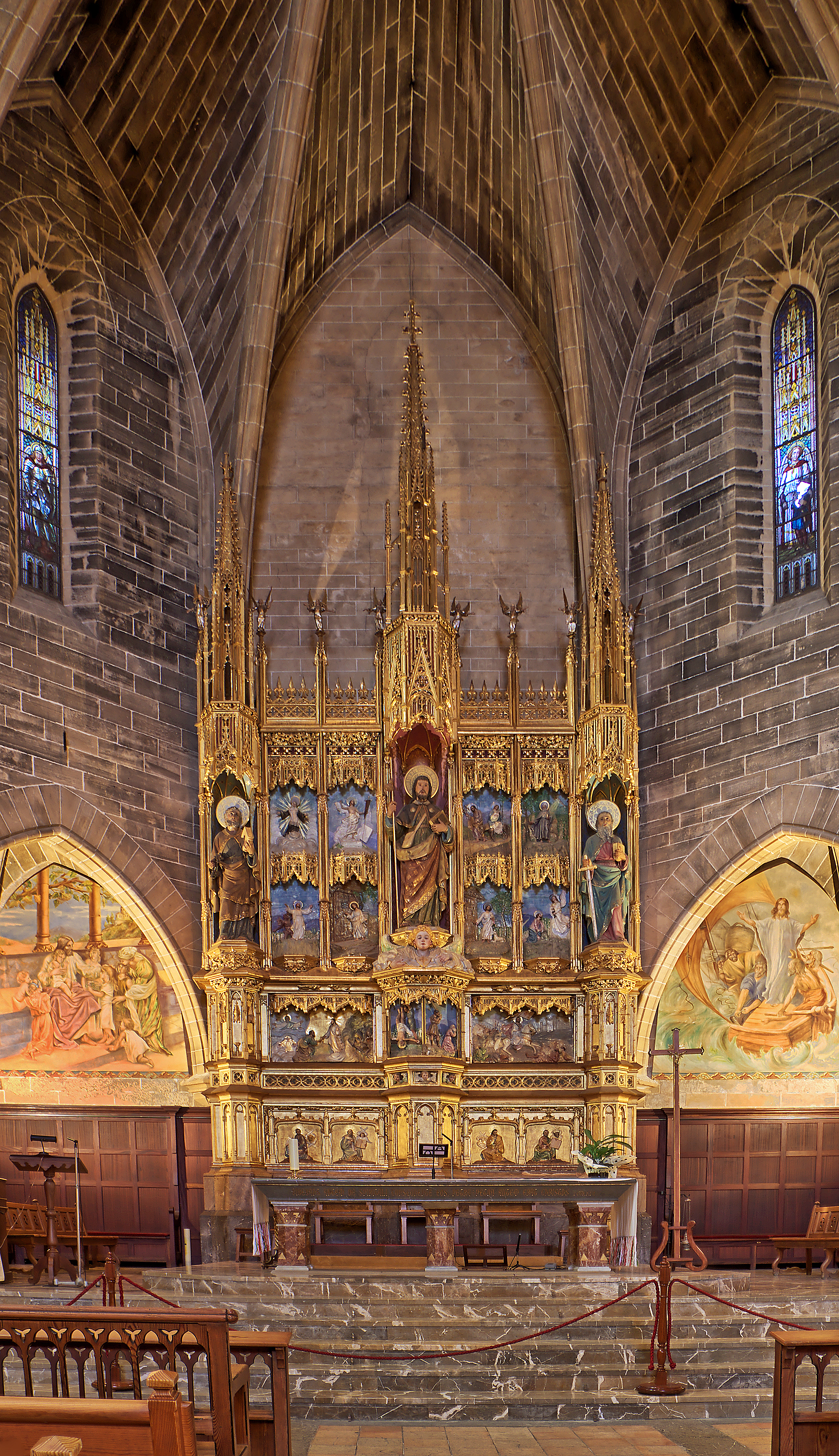 Main altar of the parish church Sant Jaume, Alcúdia, Majorca. The neo-gothic altar is a work of Llorenç Ferrer and Miquel Arcas. In the center the statue of St. James, St. Peter at the left side and St. Paul at he right. Between them eight boxes with Saint Catherine Thomàs, the resurrection of Jesus, the flight to Egypt of the holy family, the blessed Ramon Llull, the temptations of Jesus, Jesus knocking on the door, the Good Shepherd, and the garden prayer. At the bottom the four evangelists, thereover in the center the martyrdom of St. Peter and St. Paul, at the left gives Jesus the church keys to St. Peter, on the right the appearance of Santiago.